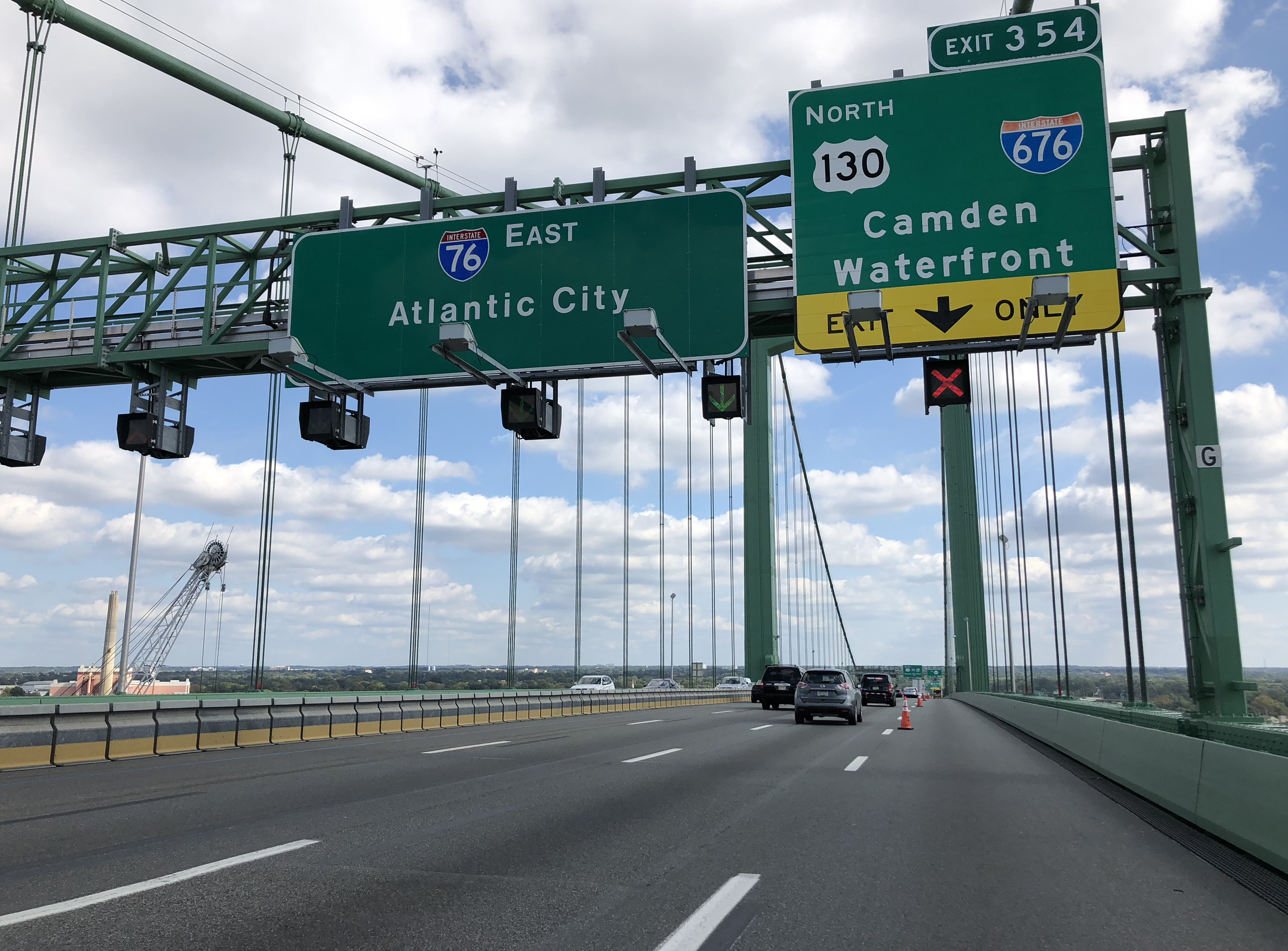 View east along Interstate 76 (Walt Whitman Bridge) crossing the Delaware River from Philadelphia, Philadelphia County, Pennsylvania to Gloucester City, Camden County, New Jersey